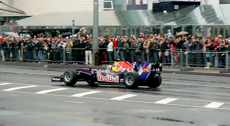 David Coulthard at "Red Bull Speed Avenue" show (Vilnius, Lithuania).